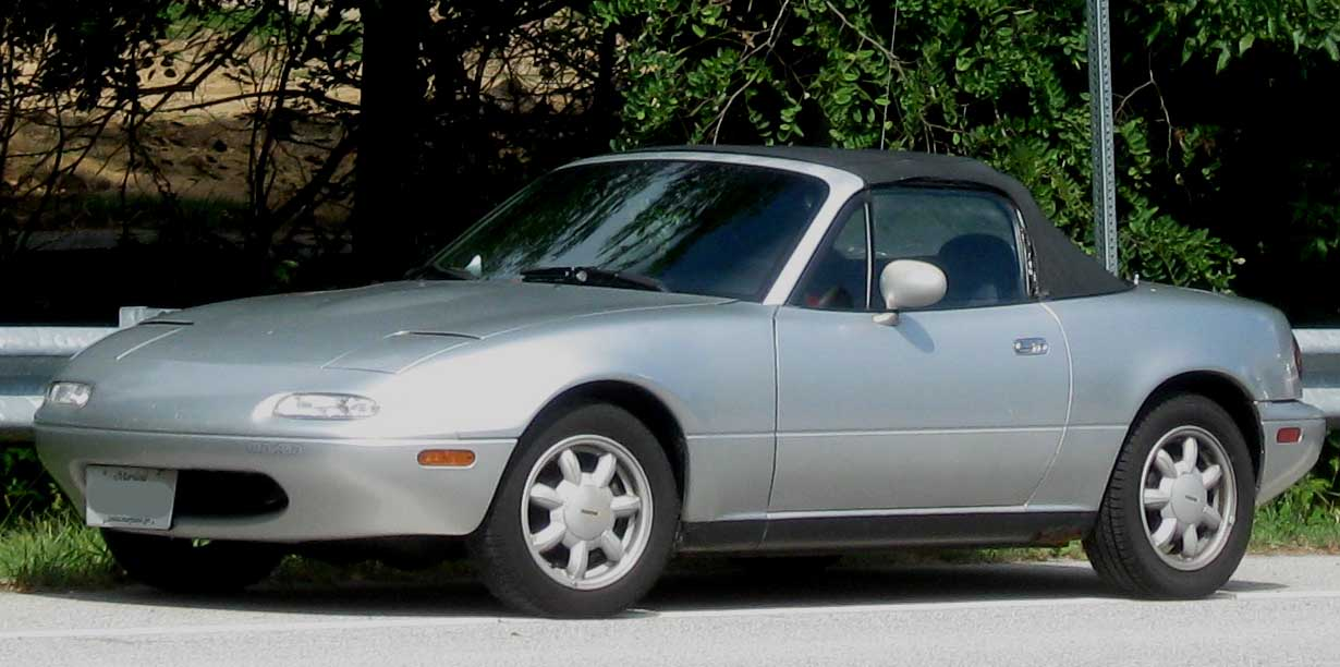 Mazda Miata photographed in College Park, Maryland, USA.